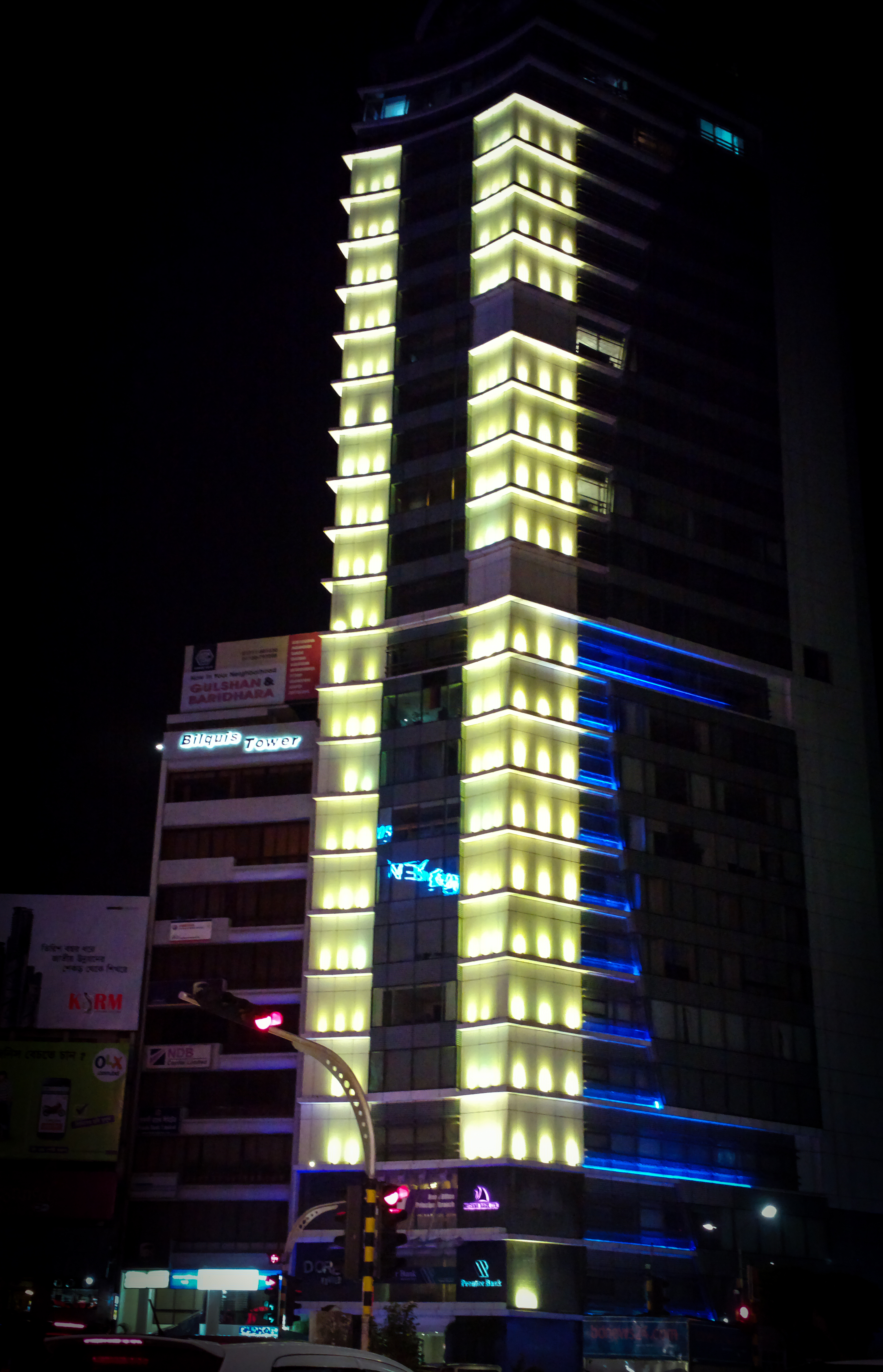 Doreen Tower, at night, Gulshan -2 Circle, Dhaka, Bangladesh